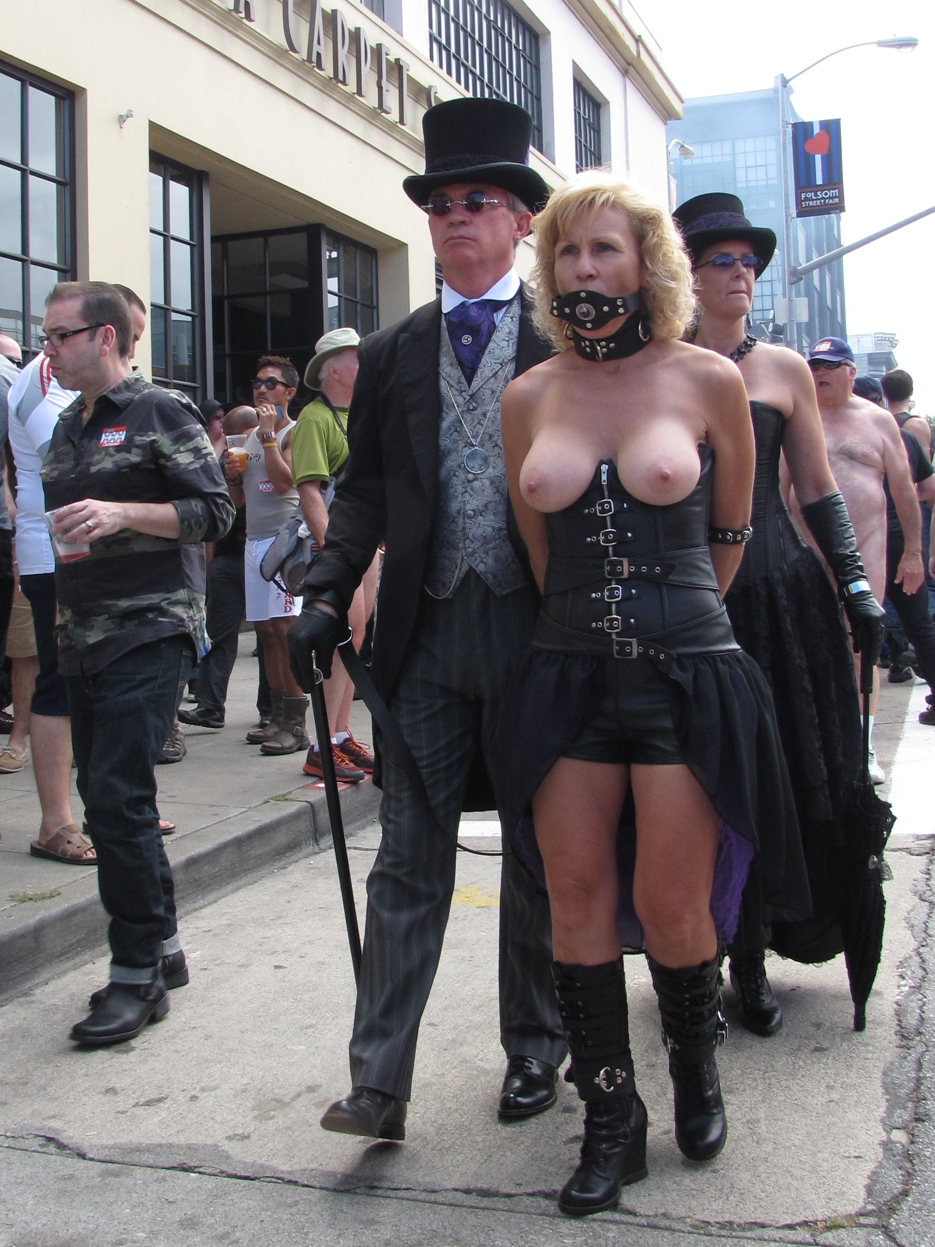 Folsom Street Fair 2013, San Francisco